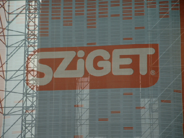 The official logo of the Sziget Festival 2005 at the mainstage